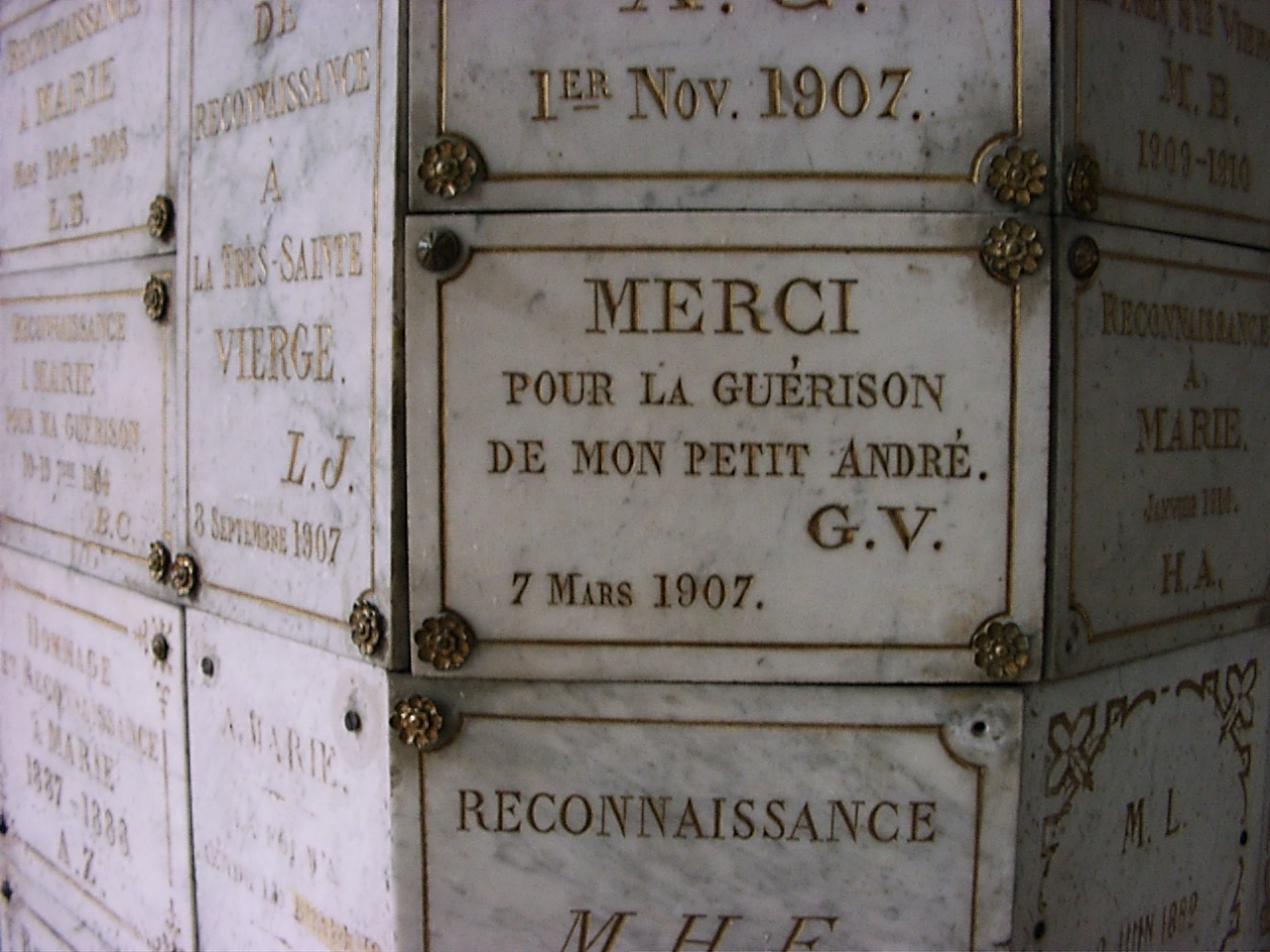 Saint-Germain-l'Auxerrois church in Paris. Interior view.